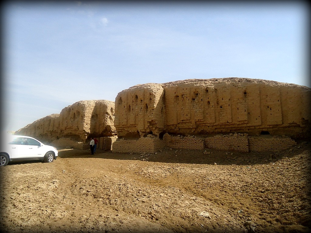 The most striking feature of the Sumerian city Kish is this ziggurat. Modern-day Babel Governorate, Iraq.